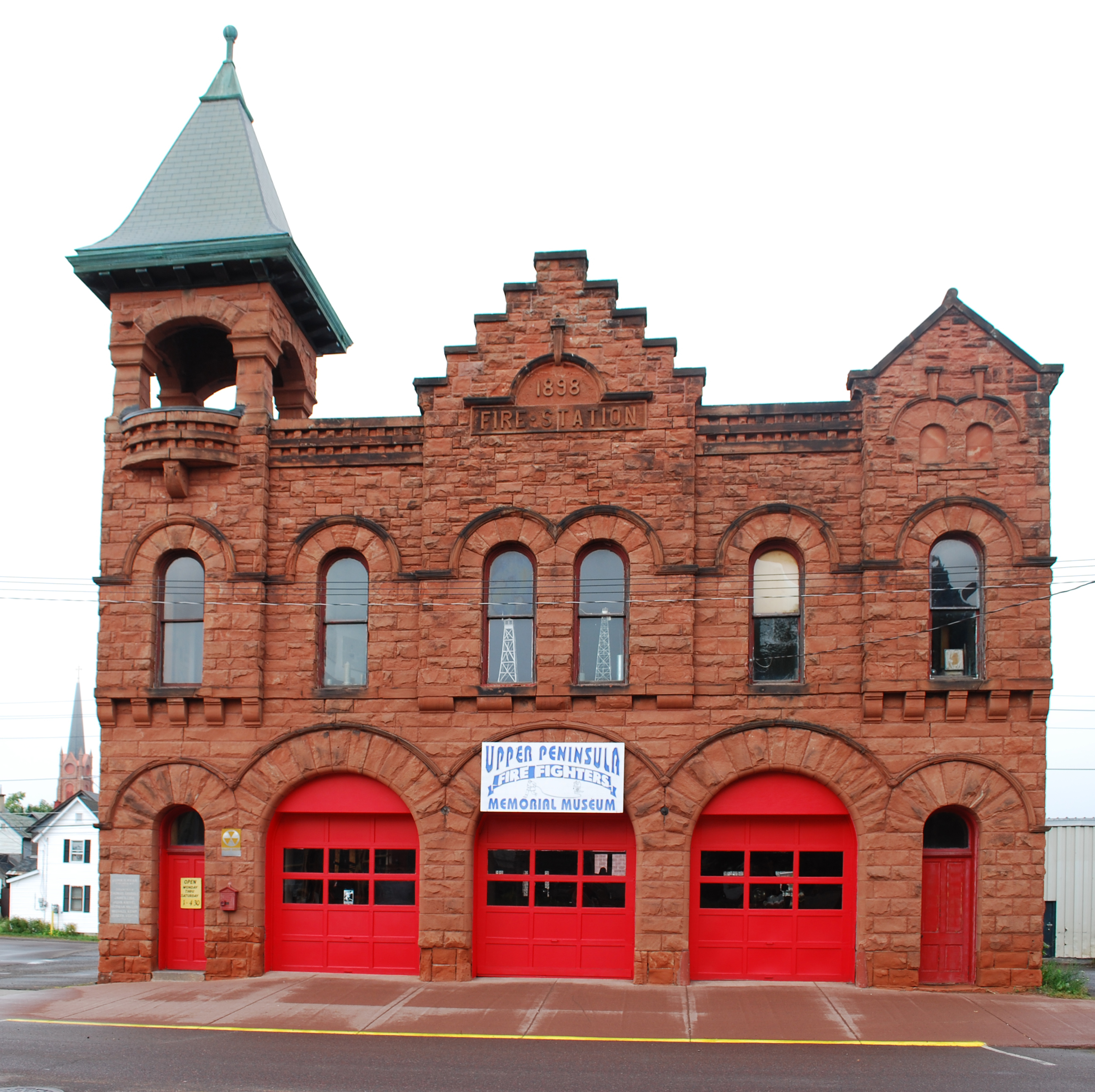 The Calumet Fire Station — in Calumet, Upper Peninsula, Michigan. The building now houses the Upper Peninsula Fire Fighters Memorial Museum. 1898 Romanesque Revival style stone building. Historic district contributing property, and on the National Register of Historic Places in Houghton County, Michigan.